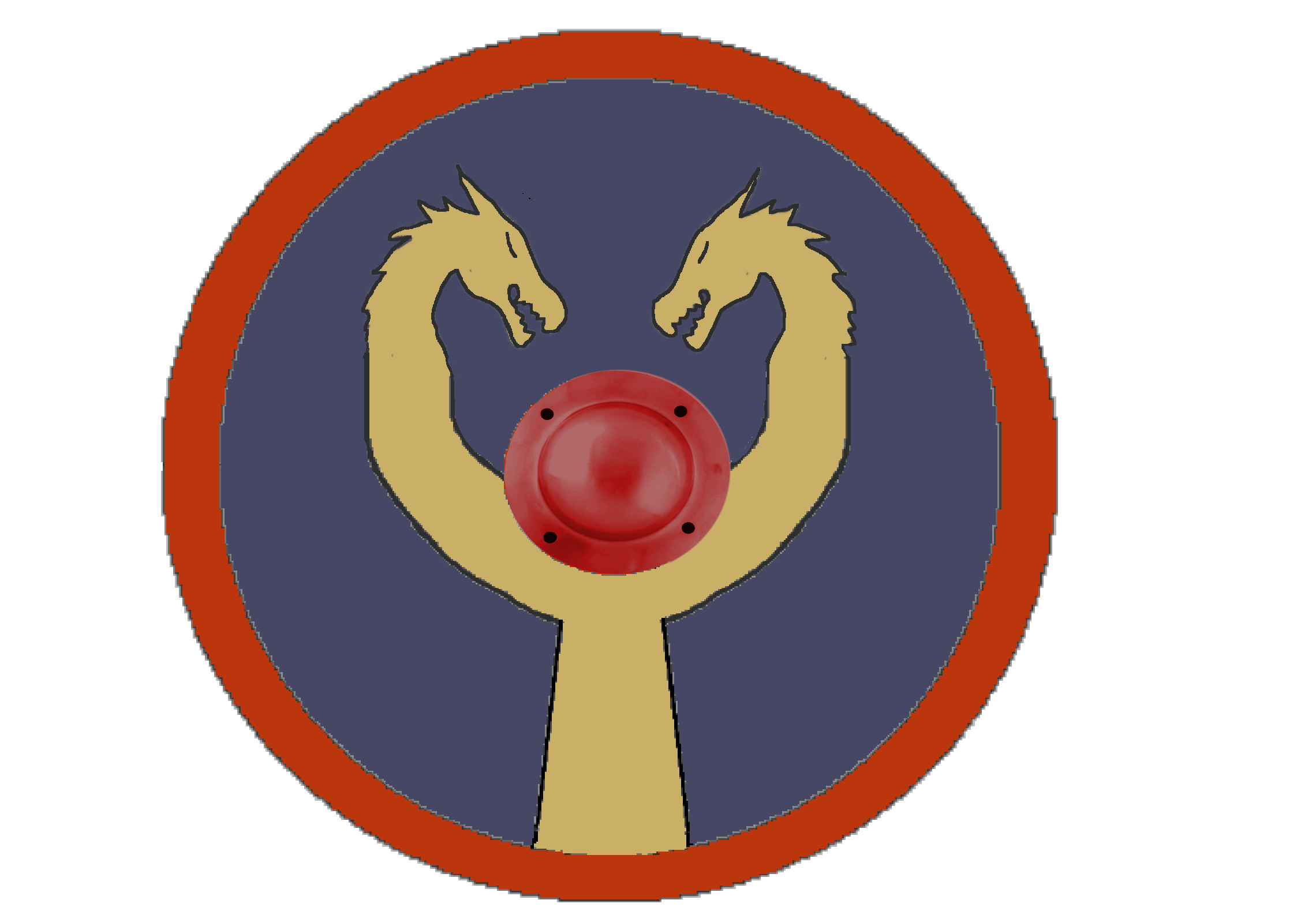 Shield pattern o.t. Honoriani Atecotti iuniores, one of the auxilia palatina units in the Magister Peditum's infantry roster; it is assigned to his Italian command under the name Atecotti Honoriani iuniores.